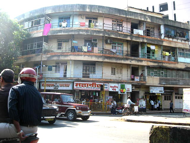 Community housing, Dadar